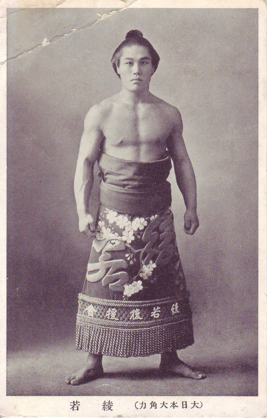 Postcard of Masao Ayawaka (sumo wrestler. Maegashira).